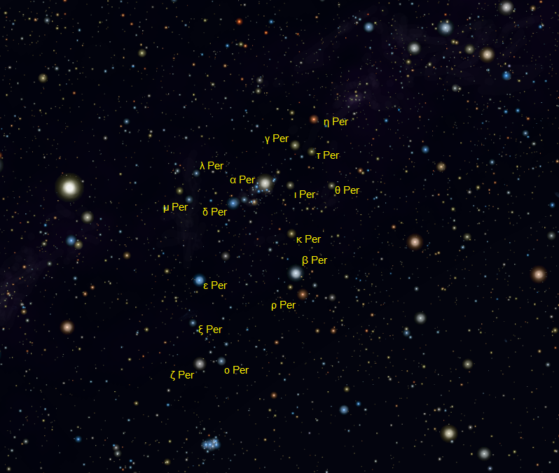 Cassiopeia image